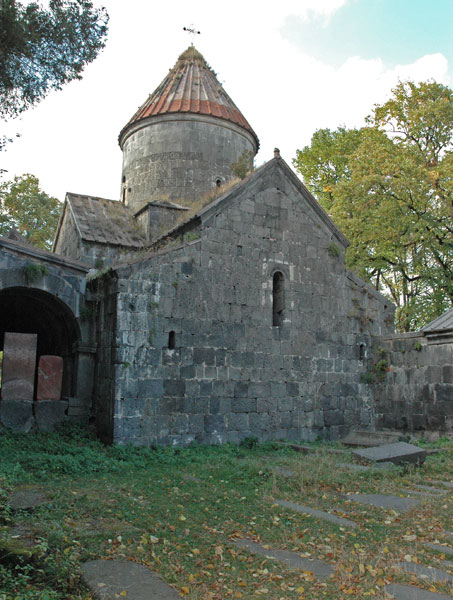 Sanahin monastery. Holy Mother of God Church. Armenia